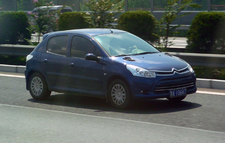 Citroën C2 in China